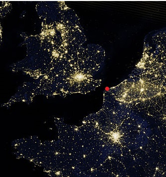 night time satellite image with Calais marked red